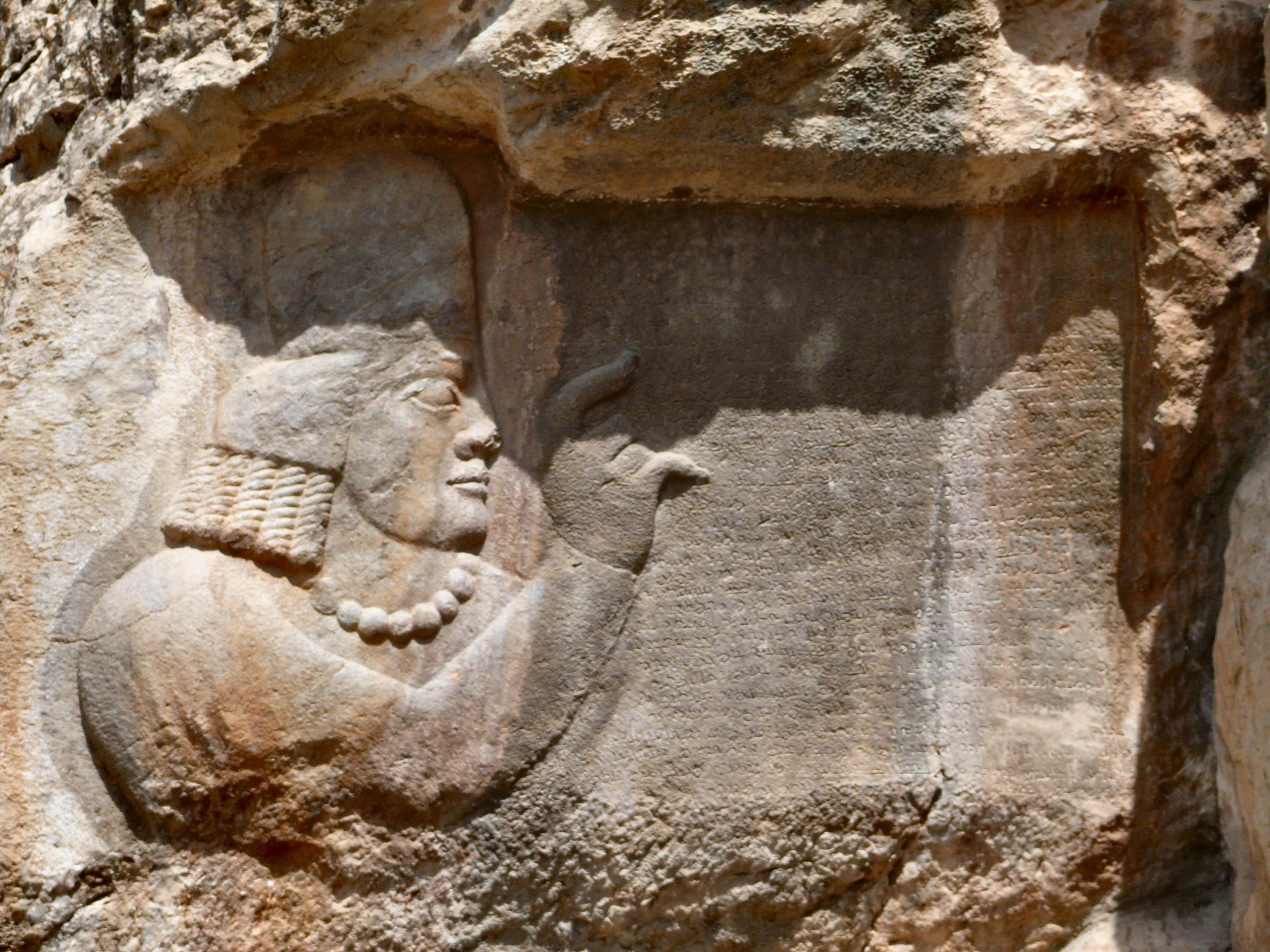 Stone relief in Naqsh-e Rustam — ancient Persian Sasanian art in Fars province - Iran. Kartir was the high priest and vizier (“Moebed” in Pahlavi language) during the reign of several Sasanian kings. He accessed stronger and stronger responsabilities until the reign of Bahram II, where he gained a substantial influence on the king and on the empire politics. Under his office, Zoroastrism will become the official state religion in the 2nd Persian empire, and other religions such as Christianism will be persecuted. As the Roman empire tried several time to expand its eastern borders, several wars were engaged between the Persian and the Romans. On the same time, Nestorian Christianism did expand on the Iranian plateau, and Christians were then considered as potential allied with the Romans. Zoroastrism gained with Kartir an organized clergy and was then used as an efficient control instrument of the population serving the monarchy. Some scholars see in that strong and influent zoroastrian clergy some of the origins of the Shia clergy after the Muslim invasion of Iran. Kartir has been even so important that he is the only non royal person allowed to carve his own reliefs, being present on 5 rock reliefs near the king, writing several inscriptions such as this one, close to the investiture relief of Ardeshir at Naqsh-e Rajab III . This relief was an addition on the investiture scene, were Kartir is shown paying respect to the king by curving his 2nd finger forward. The inscription is written in Pahlavi language and details Kartir’s vision of faith, hell and paradise, good and bad. Kartir can be easily recognized by the fact he is not bearded (see also his image on Sarab-e Bahram ) and sometime has a cisor symbol on his hat. See also the english translation of Kartir's inscription on . Taken in Naqsh-e Rajab, vicinity of Marvdasht, Province of Fars, Iran, April 2008.